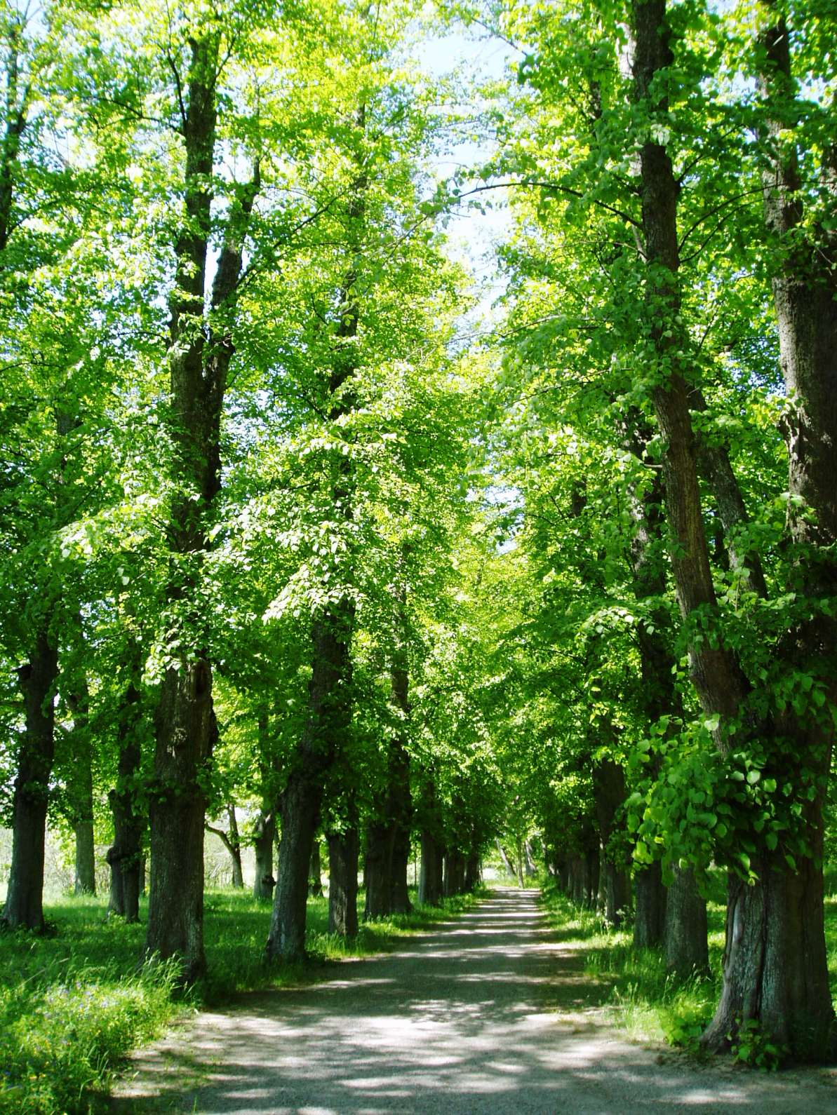 English garden at Svartsjö castle, Ekerö kommun, Sweden